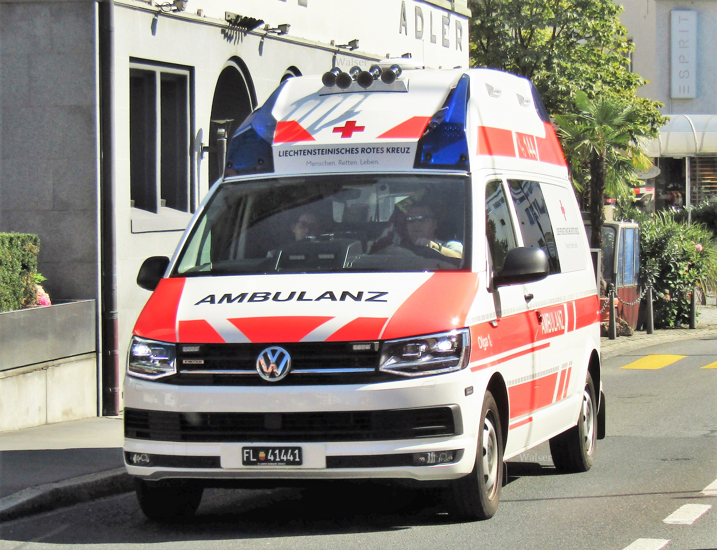 FL 41441 - ambulance